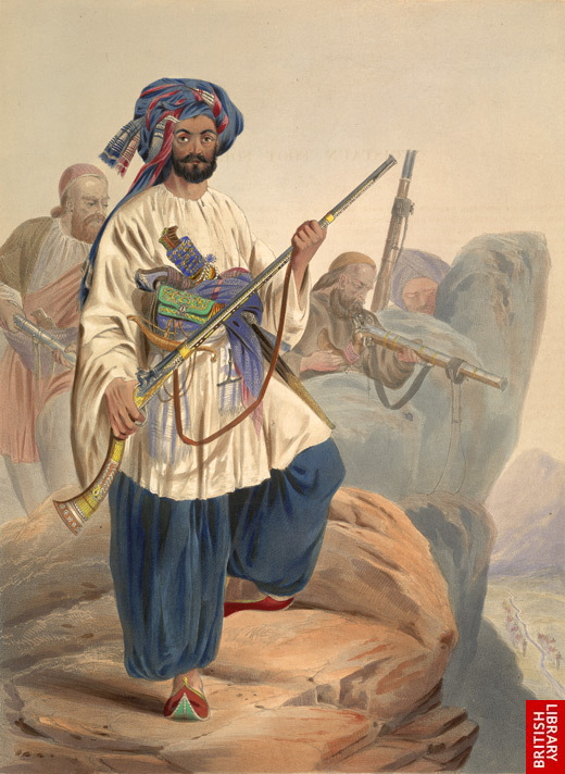 Ko-i-staun foot soldiery in summer costume This lithograph is taken from plate 12 of 'Afghaunistan' by Lieutenant James Rattray. This Kohistani is Mir Alam, formerly one of a band of noted robbers on the road to Turkestan, north-west of Begram. Rattray wrote: "Coistaun has always been remarkable for the war-like character of its inhabitants, who average some forty thousand families famous for the efficiency and excellence of their Pyadas (foot-soldiery). As light infantry they are unrivalled, and from their numbers and determined courage, are of considerable importance in the event of any revolution in which they may take part." The robber chief Hassan secretly and daringly accosted the British envoy William McNaghten and offered to bring him Dost Mohammmed's head in return for a large amount of money. Although this offer was hastily turned down, Hassan and his men were later enrolled among the infantry escort of Rattray's brother. Giving up their precarious livelihood, they became most efficient soldiers. Mir Alam carries a 'juzzail', a type of large heavy rifle. Afghan snipers were expert marksmen and their juzzails fired roughened bullets, long iron nails or even pebbles over a range of some 250 metres. The Afghans could fling the large rifles across their shoulders as if they were feathers and spring nimbly from rock to rock. They loved to decorate their rifles: Rattray writes of finding one adorned with human teeth.